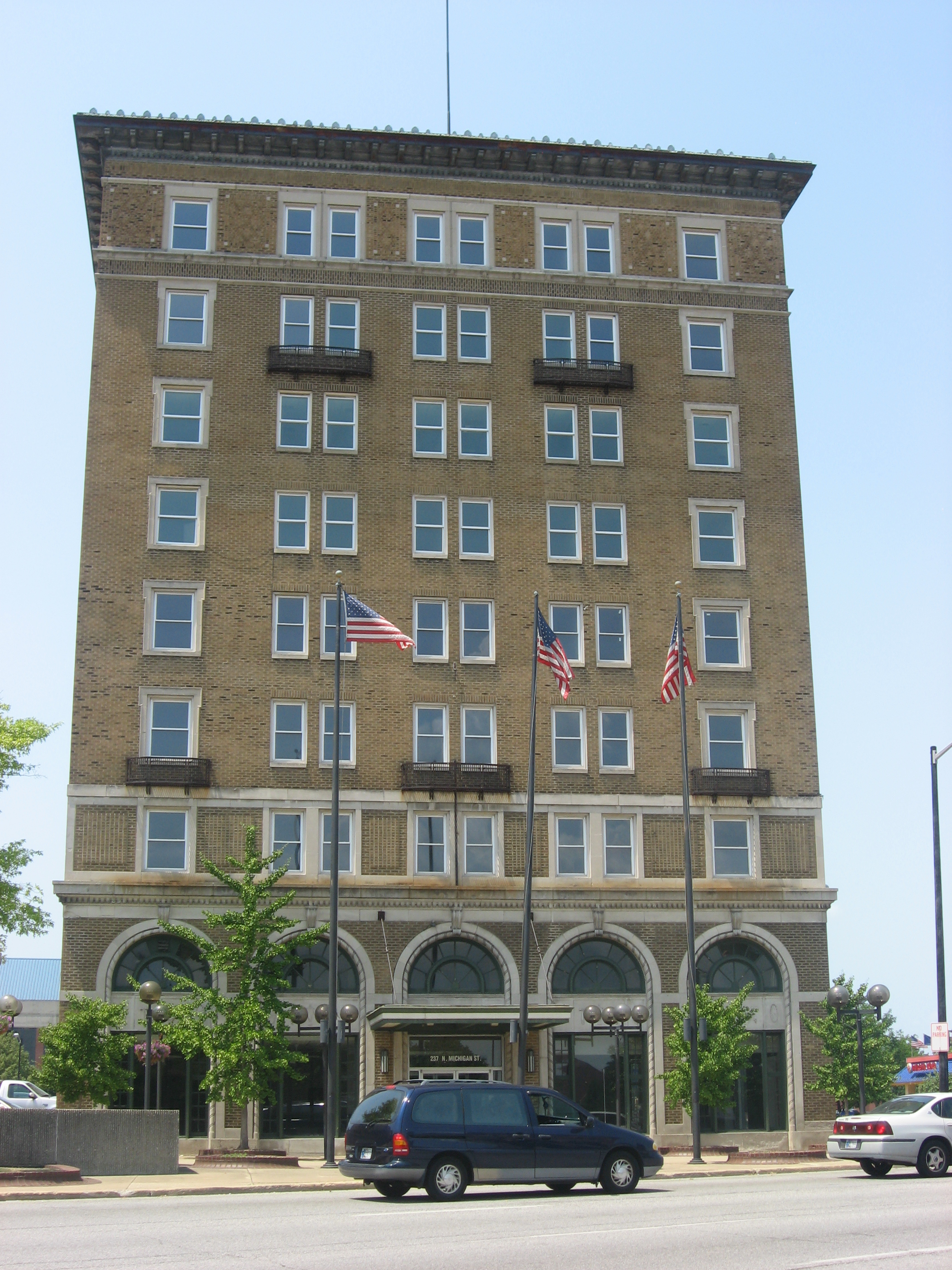 Front of the LaSalle Hotel, located at 237 N. Michigan Street in South Bend, Indiana, United States. Built in 1921, it is listed on the National Register of Historic Places.